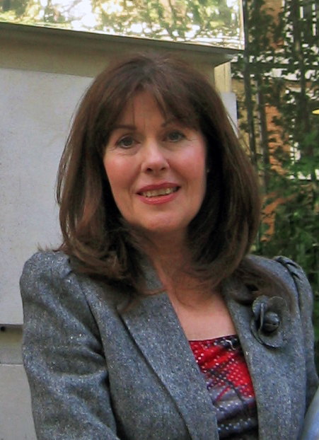 Elisabeth Sladen, standing outside Forbidden Planet in London 2003.